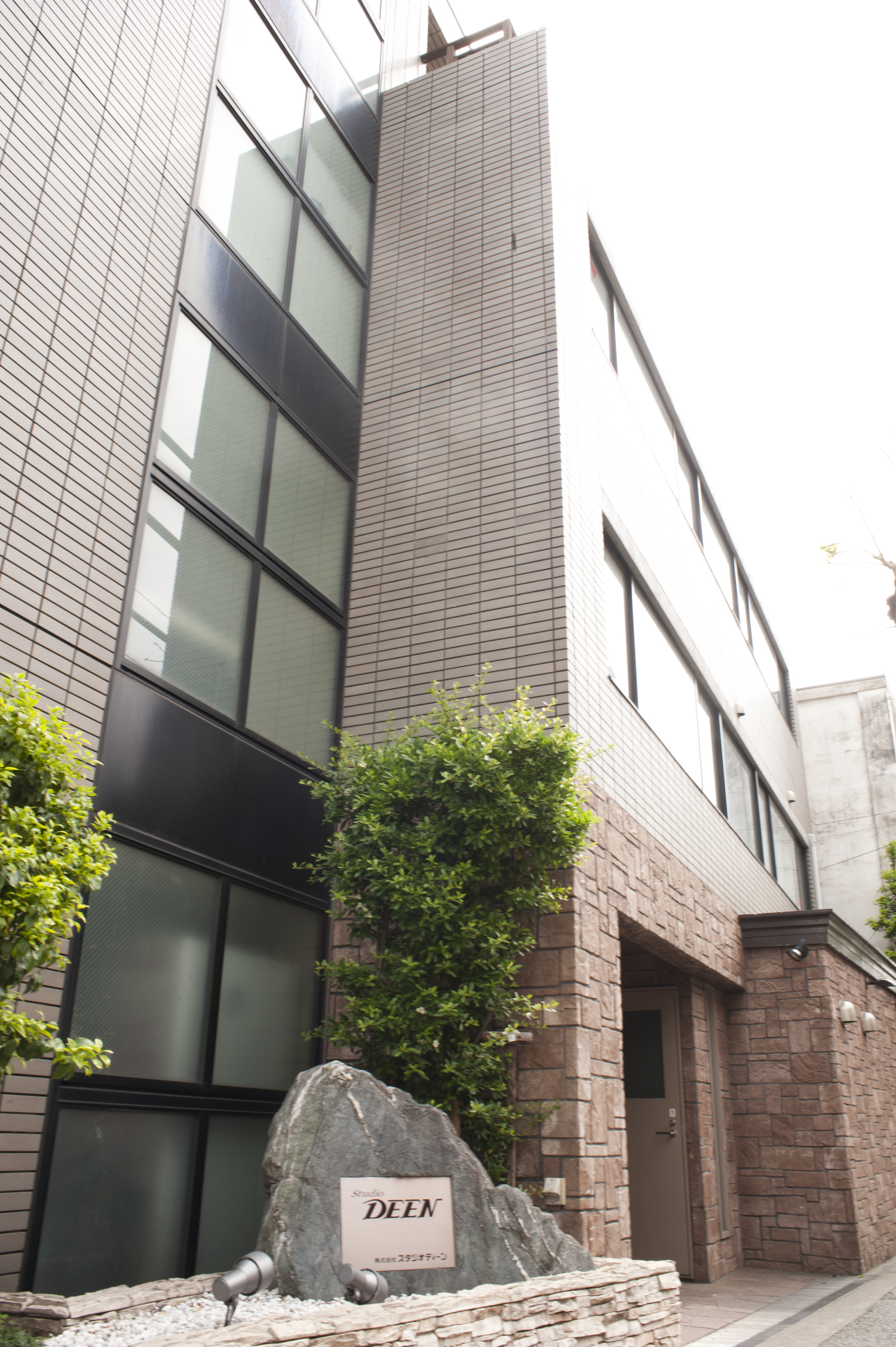 STUDIO DEEN CO.,LTD 4-4-13,KICHIJOUJIMINAMICHO,MUSASHINO-SHI,TOKYO. JAPAN